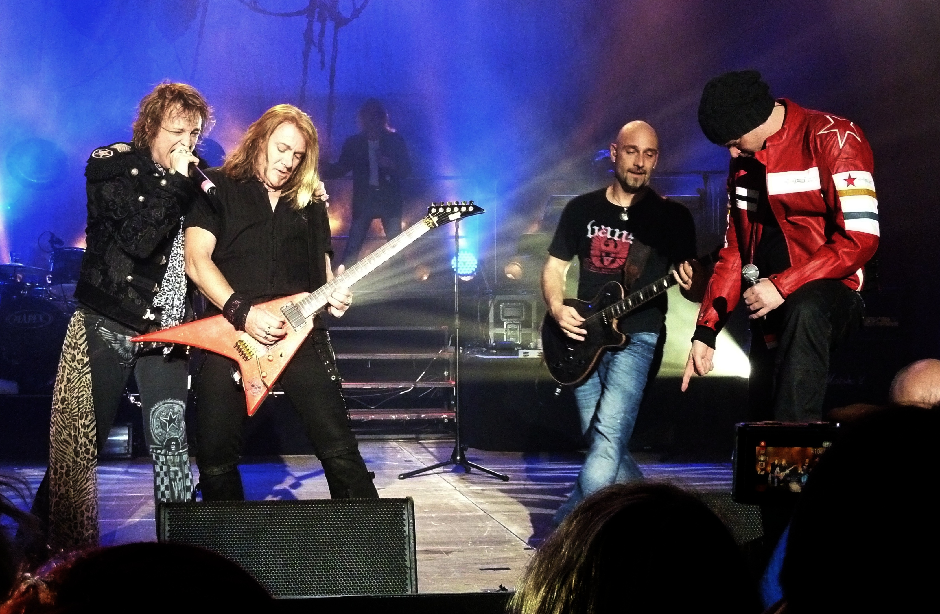 Avantasia - Fulda - 2010-12-18